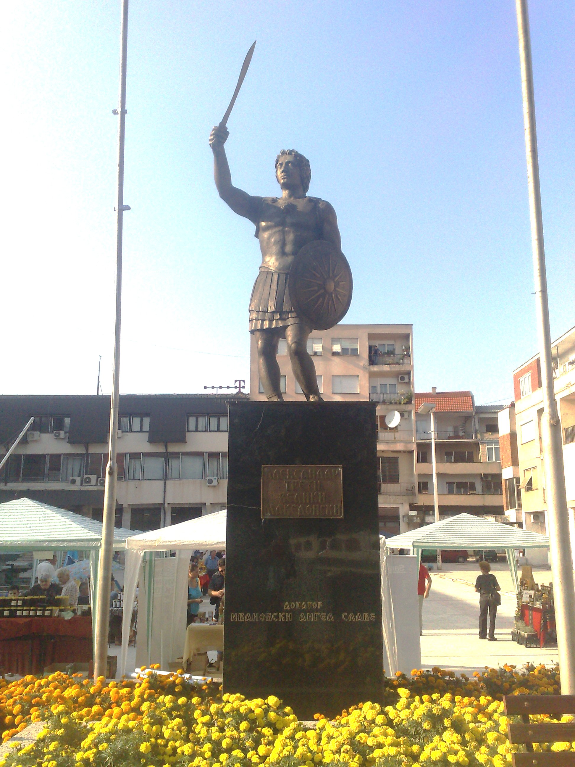 The monument of Alexander the Great of Macedon in Shtip, Macedonia